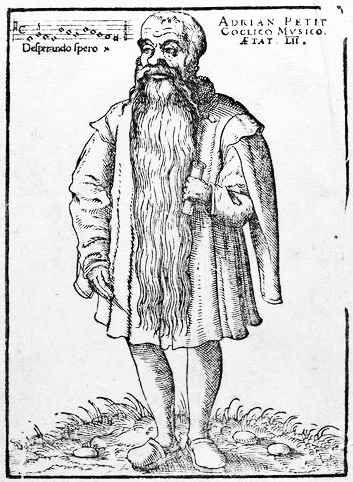 Franco-Flemish Renaissance composer and muscicologist Adrianus Petit Coclico (1499-1562/1563).